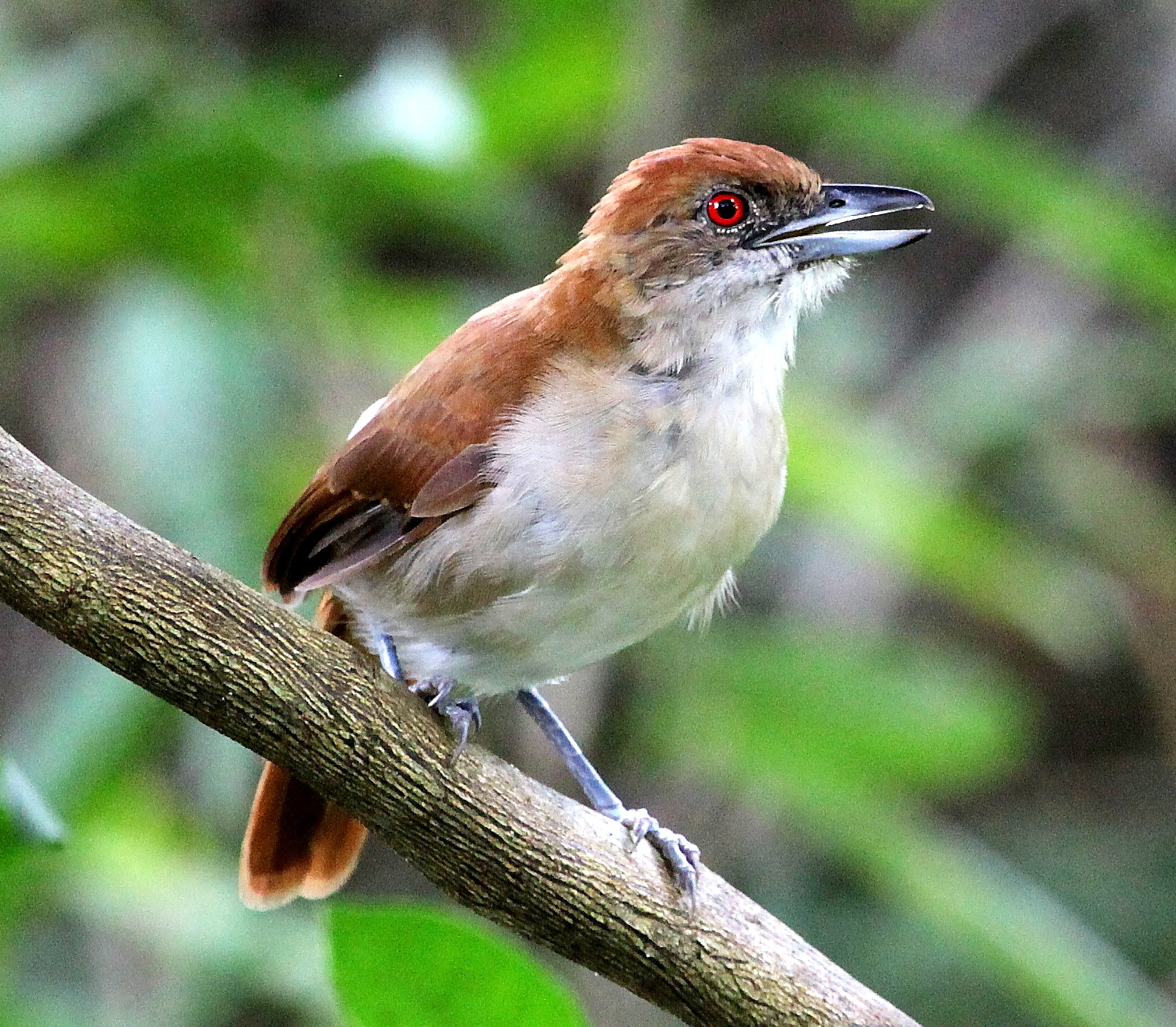 Great Antshrike (female) at Bonito - MS - Brazil